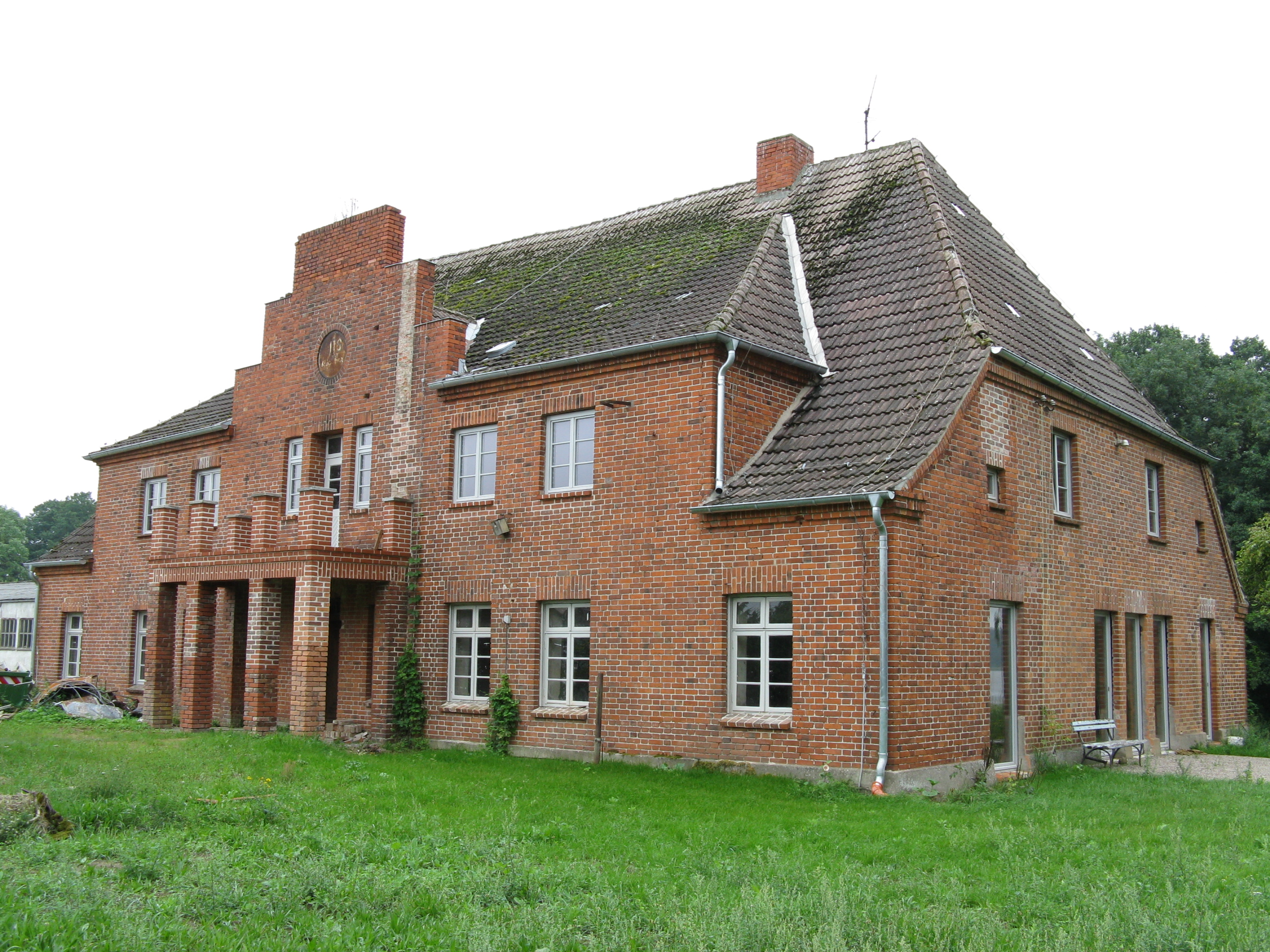 Manor house in Klein Labenz, district Nordwestmecklenburg, Mecklenburg-Vorpommern, Germany